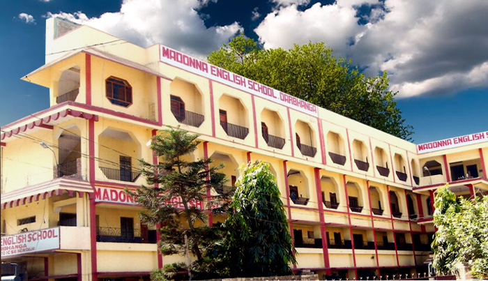 The main building of the school